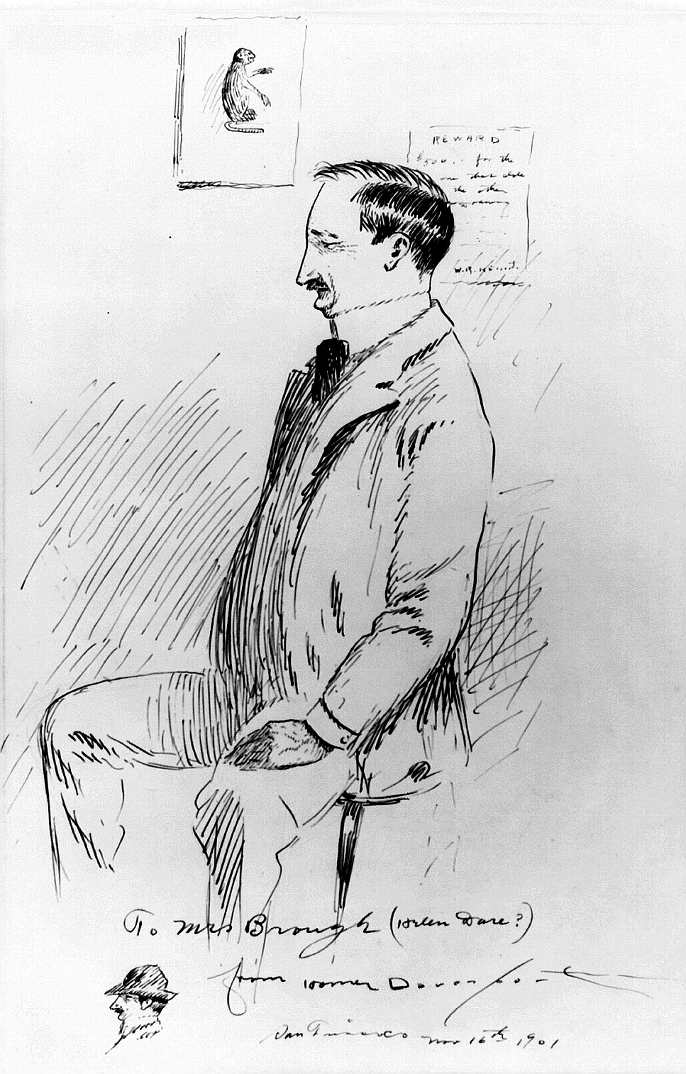 Self-portrait of American political cartoonist Homer Davenport (1867-1912). Exhibited at Library of Congress, "Drawings of Nature and Circumstance," 1979.